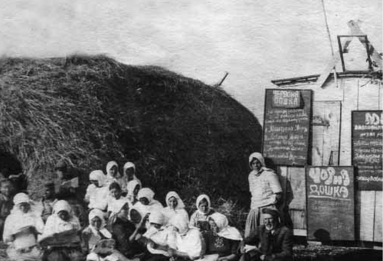 "Black" and "Red" boards at Kievskaya oblast kolkhoz. August 1932